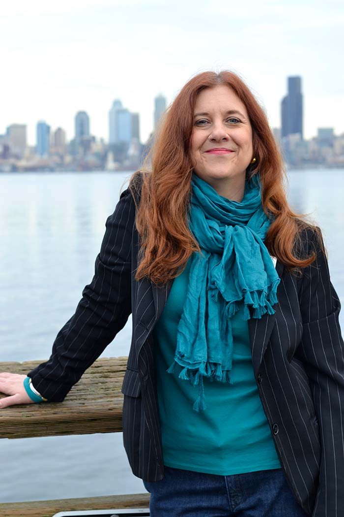 Portrait of Seattle City councilmember Lisa Herbold.